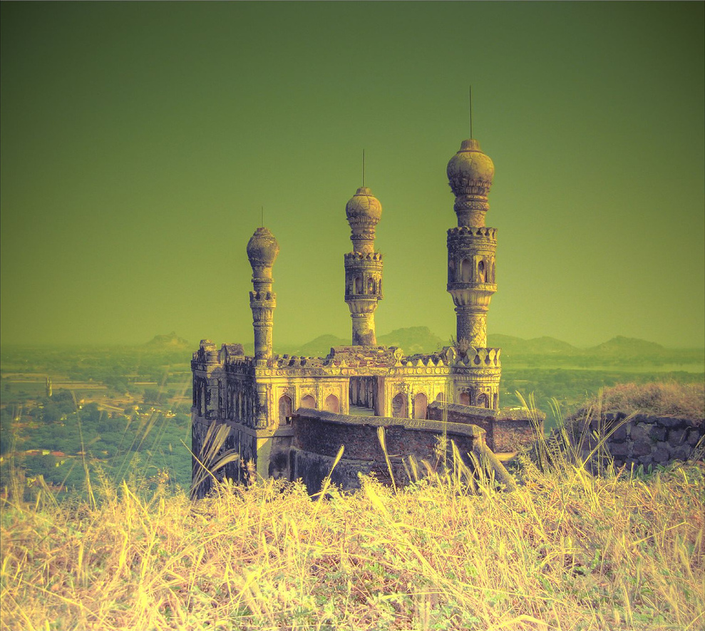 Teen Minar stands for Three Towers... Most of the islamic forts have four minars... but the fourth in this case might have got wrecked out...